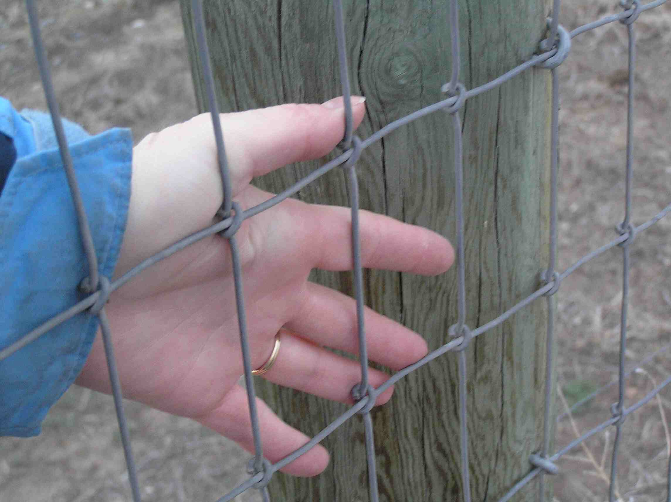 Closeup detail of a safe woven wire fence, suitable for horses